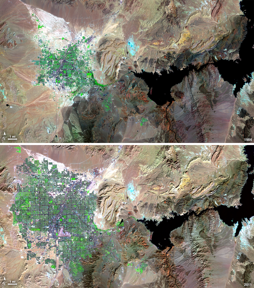 Over the years of the Landsat program, the desert city of Las Vegas has gone through a massive growth spurt. The outward expansion of the city over the last quarter of a century is shown here with two false-color Landsat 5 images (August 3, 1984, and November 2, 2011). The dark purple grid of city streets and the green of irrigated vegetation grow out in every direction into the surrounding desert. These images were created using reflected light from the shortwave infrared, near-infrared, and green portions of the electromagnetic spectrum (Landsat 5 TM bands 7,4,2). NASA and the U.S. Department of the Interior through the U.S. Geological Survey (USGS) jointly manage Landsat, and the USGS preserves a 40-year archive of Landsat images that is freely available over the Internet. The next Landsat satellite, now known as the Landsat Data Continuity Mission (LDCM) and later to be called Landsat 8, is scheduled for launch in 2013. In honor of Landsat’s 40th anniversary in July 2012, the USGS released the LandsatLook viewer – a quick, simple way to go forward and backward in time, pulling images of anywhere in the world out of the Landsat archive. NASA image use policy. NASA Goddard Space Flight Center enables NASA’s mission through four scientific endeavors: Earth Science, Heliophysics, Solar System Exploration, and Astrophysics. Goddard plays a leading role in NASA’s accomplishments by contributing compelling scientific knowledge to advance the Agency’s mission. Follow us on Twitter Like us on Facebook Find us on Instagram